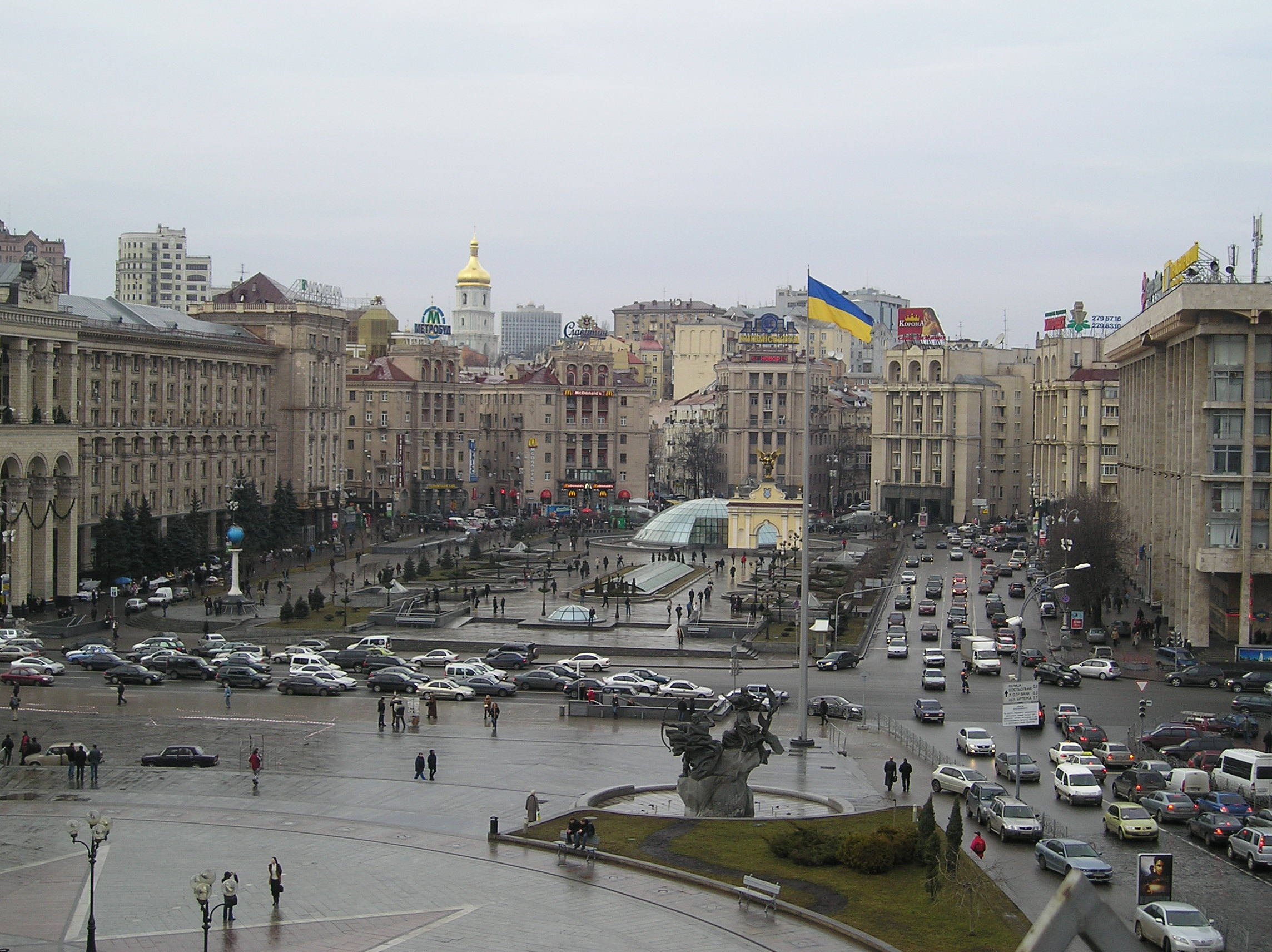 Ukraine. Kyiv. Maidan Nezalezhnosti.